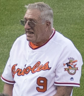 Members of the 1966 Orioles World Series championship team throw out the ceremonial first pitch before the Angels at Orioles game on 7/8/16 at Camden Yards in Baltimore